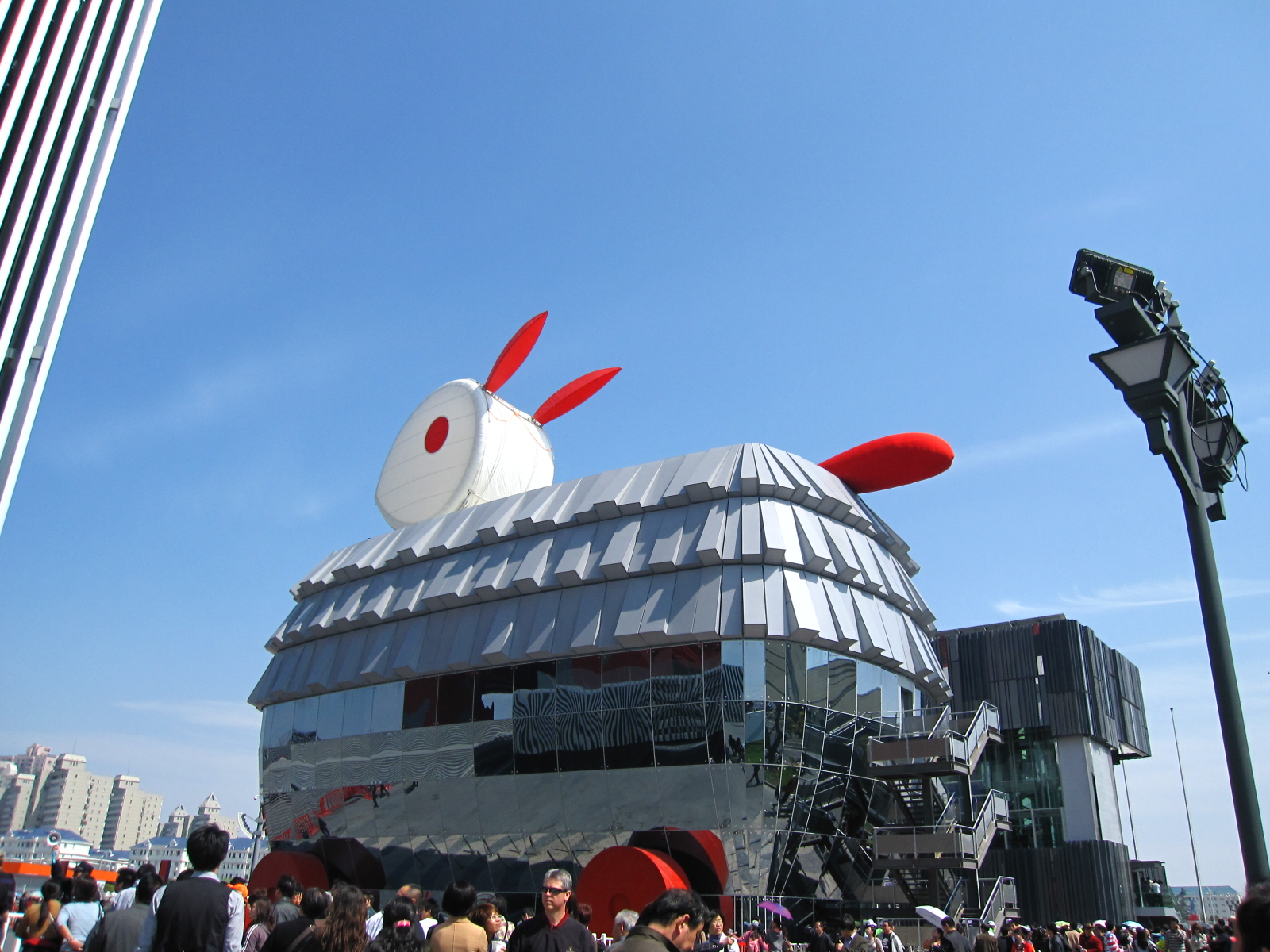 Macau Pavilion of Expo 2010